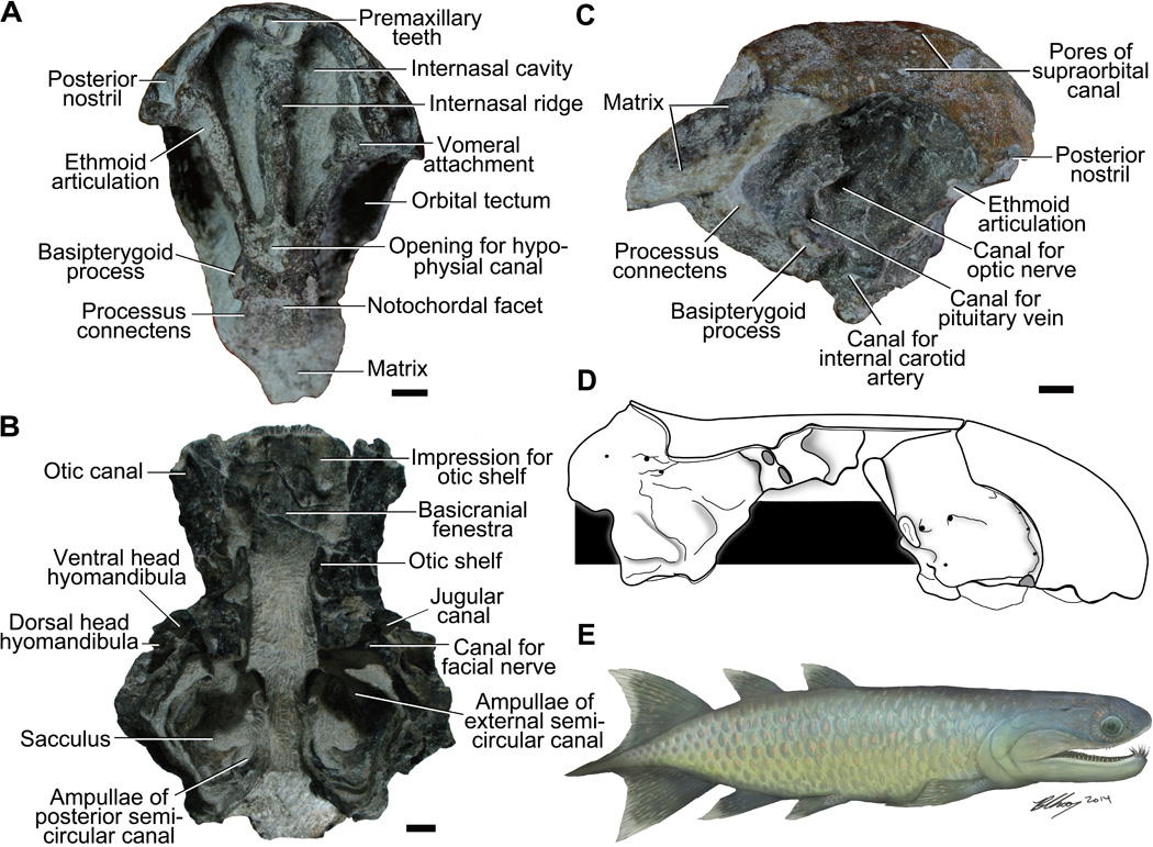 (A) Anterior cranial portion (IVPP V16003.5) in ventral view. (B) Posterior cranial portion (IVPP V16003.6) in ventral view. (C) Anterior cranial portion (IVPP V16003.5) in right lateral view. (D) Tentative restoration of the natural shape of the neurocranium in right lateral view. (E) Life restoration drawn by B. Choo (Flinders University, Australia). Scale bars, 2 mm. (D and E) Not drawn to scale.